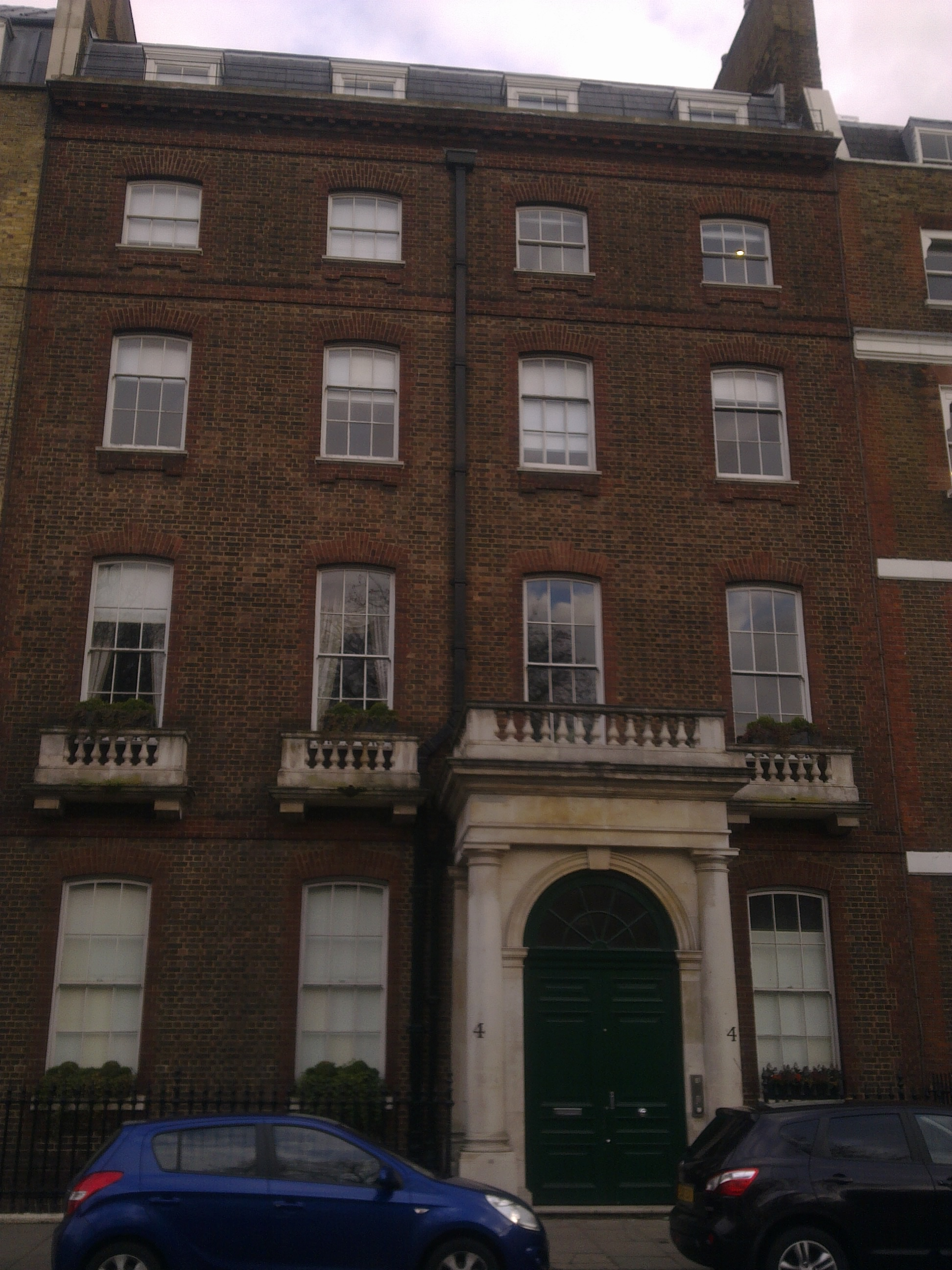 Embassy of East Timor in London